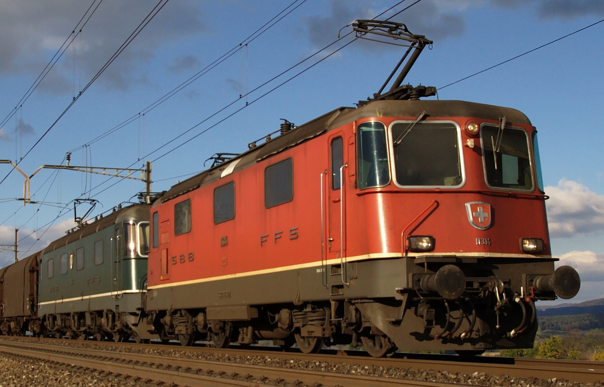 SBB-CFF-FFS Re 4/4 II together with an Re 6/6 between Mühlau (AG) and Sins